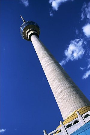 Beijing's CCTV Tower, the tallest building in the city.